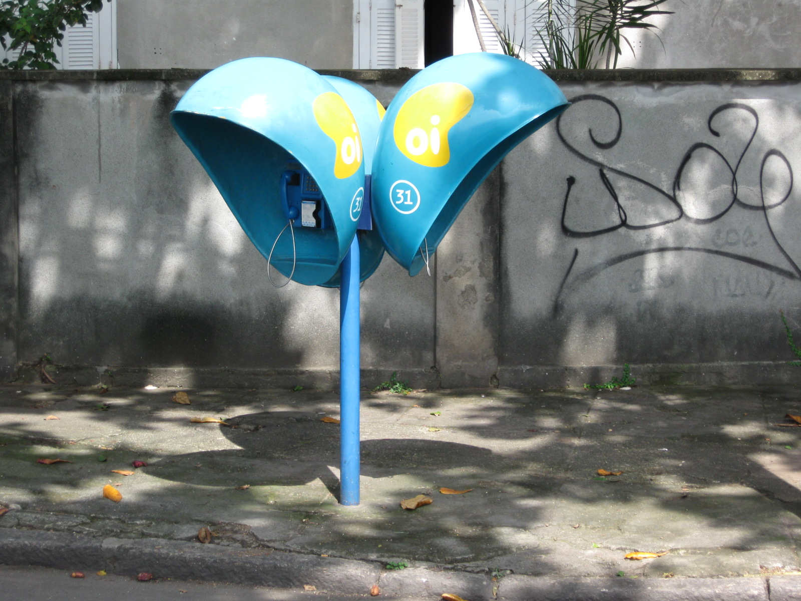 3 telephone booths (“orelhão”) in Urca neighborhood, Rio de Janeiro, Rio de Janeiro State